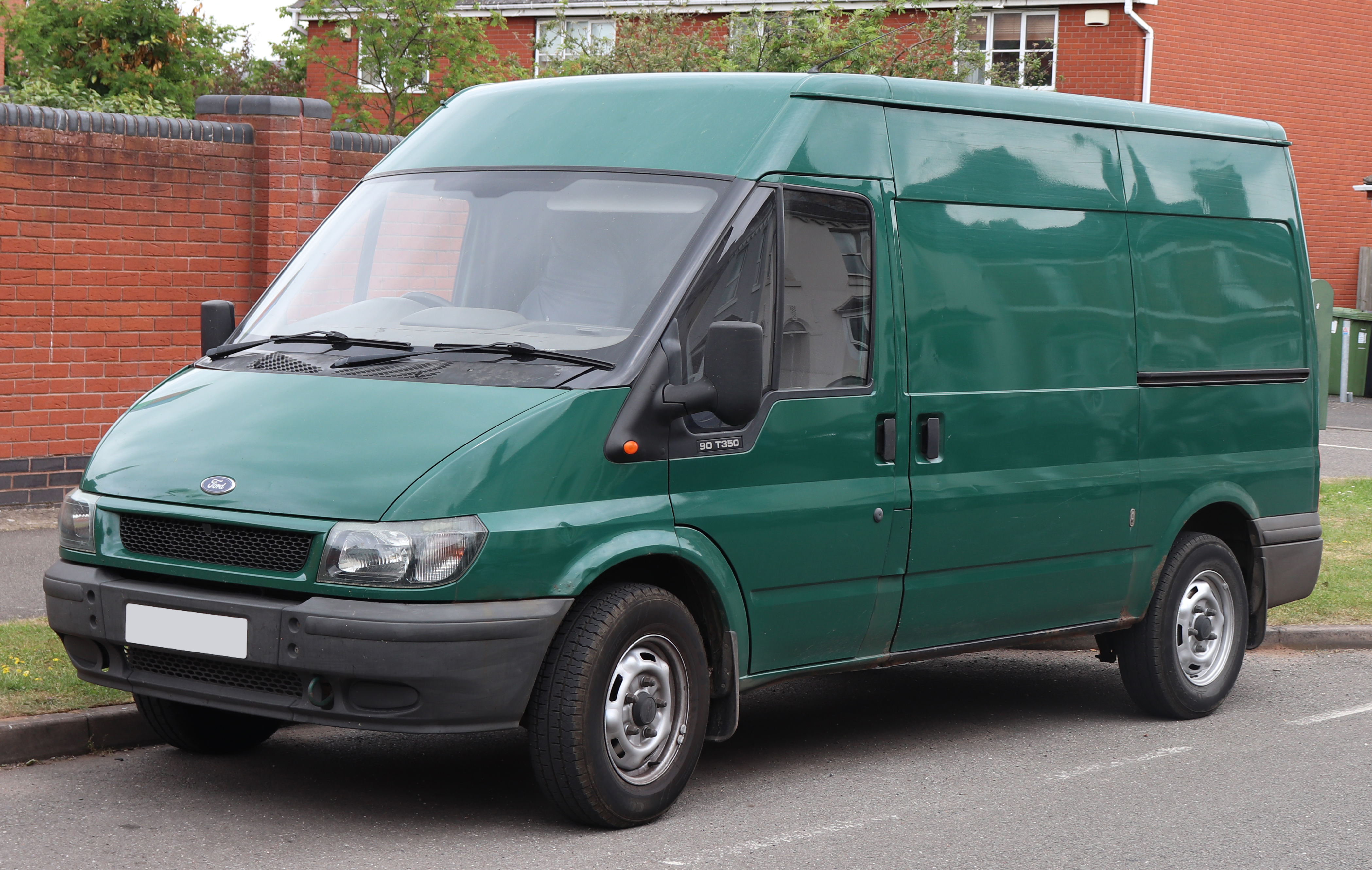 2001 Ford Transit 350 MWB TD 2.4 Front Taken in Leamington Spa